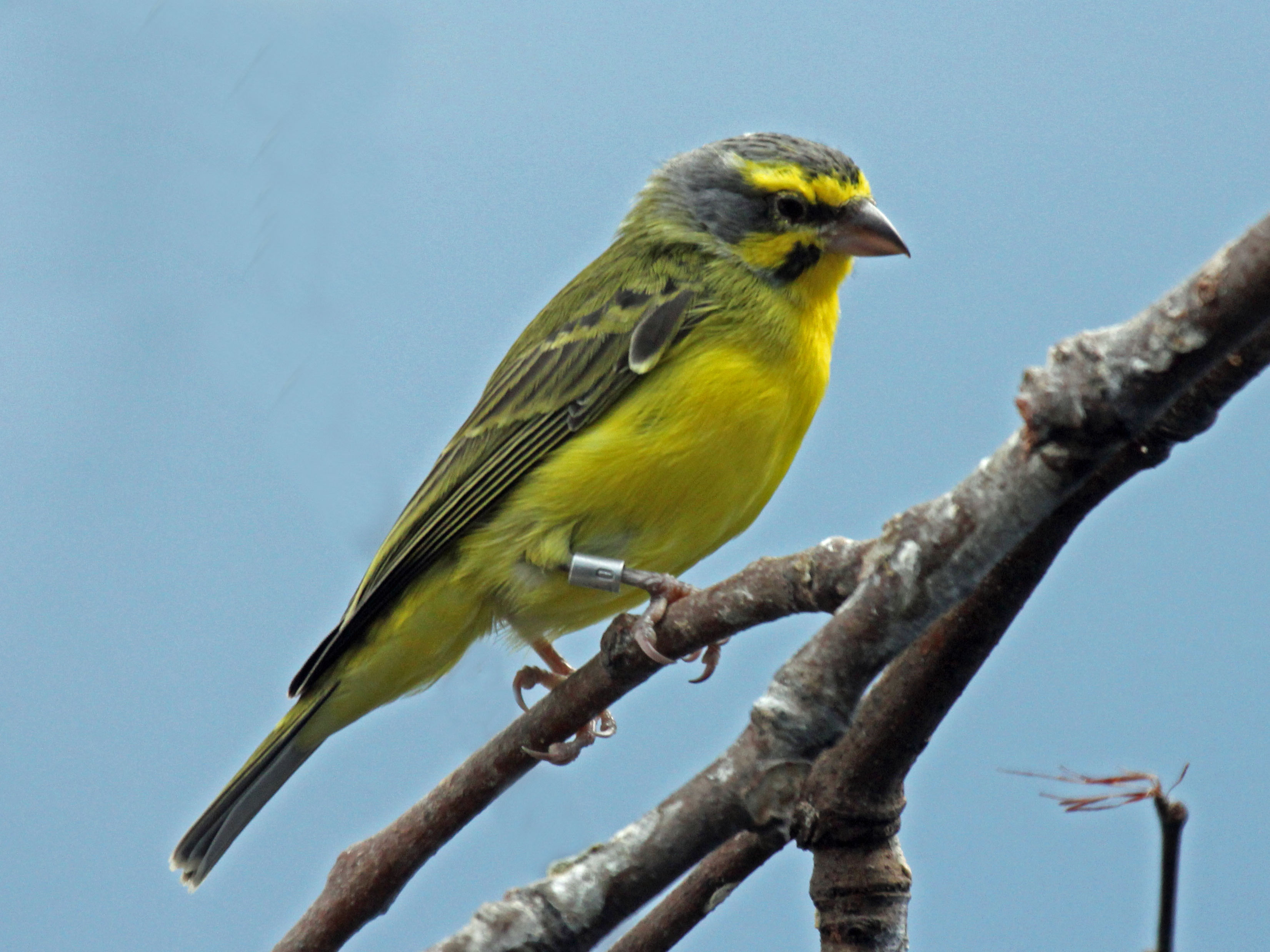 Yellow-fronted Canary (Serinus mozambicus) - National Aviary in Pittsburgh, Pennsylvania. This species is also known as Green Singing Finch.